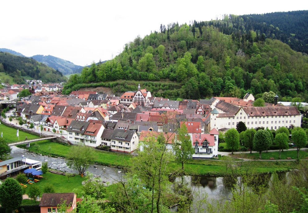 Panorama Wolfach